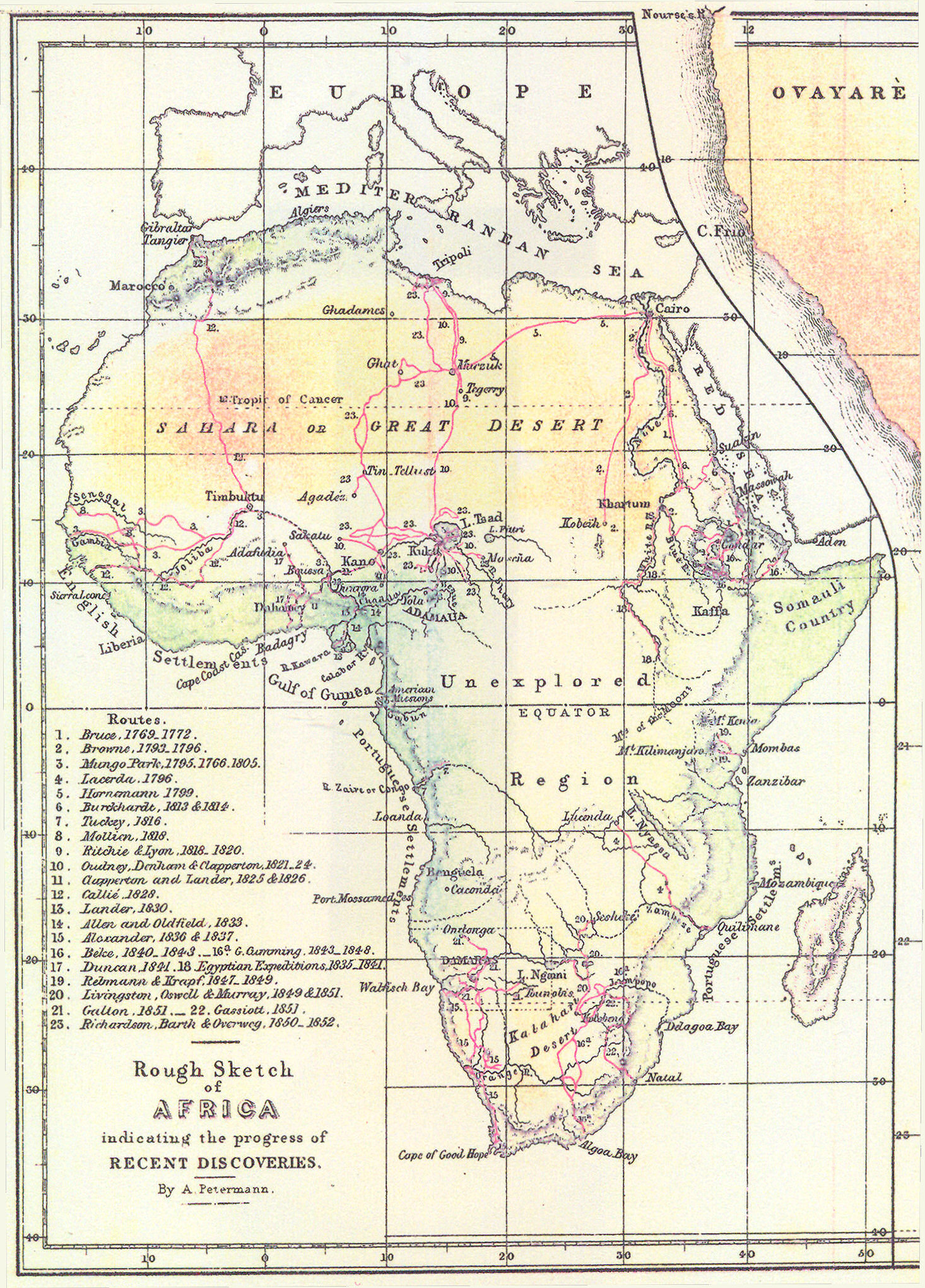 "Rough Sketch of Africa indicating the progress of recent discoveries" See also File:Heinrich Barth's route through Africa, 1850 to 1855, with routes of previous explorers.jpg for another similar map. Routes are shown for the journeys of the following explorers: 1. James Bruce, 1769–72 2. William George Browne, 1793–96 3. Mungo Park, 1795–96-1805 4. Francisco de Lacerda, 1796 5. Friedrich Hornemann, 1799 6. Johann Ludwig Burckhardt, 1813 & 1814 7. James Hingston Tuckey, 1816 8. Gaspard Théodore Mollien, 1818 9. Joseph Ritchie & George Francis Lyon, 1818–20 10. Walter Oudney, Dixon Denham & Hugh Clapperton, 1821–24 11. Hugh Clapperton & Richard Lemon Lander, 1825 & 1826 12. René Caillié, 1828 13. Richard Lemon Lander, 1830 14. William Allen & R.A.K. Oldfield, 1833 15. James Edward Alexander, 1836 & 1837 16. Charles Tilstone Beke, 1840–43 16a. Roualeyn George Gordon-Cumming, 1843–48 17. John Duncan, 1841 (Niger expedition of 1841) 18. Egyptian Expeditions, 1835–41 (Sent by Muhammad Ali of Egypt; see eg Ferdinand Werne (1849)) 19. Johannes Rebmann & Johann Ludwig Krapf, 1847–49 20. David Livingstone, William Cotton Oswell and Mungo Murray, 1849–51 21. Francis Galton, 1851 22. Henry S. Gassiott, 1851 (report) 23. James Richardson, Heinrich Barth & Adolf Overweg1850 & 1852